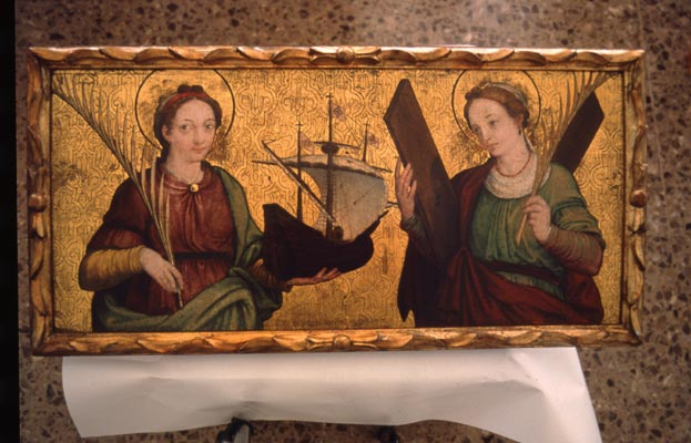 Gothic altarpiece with Saints Madrona (left) and Eulalia (right), from a Barcelona painter of 16th century.